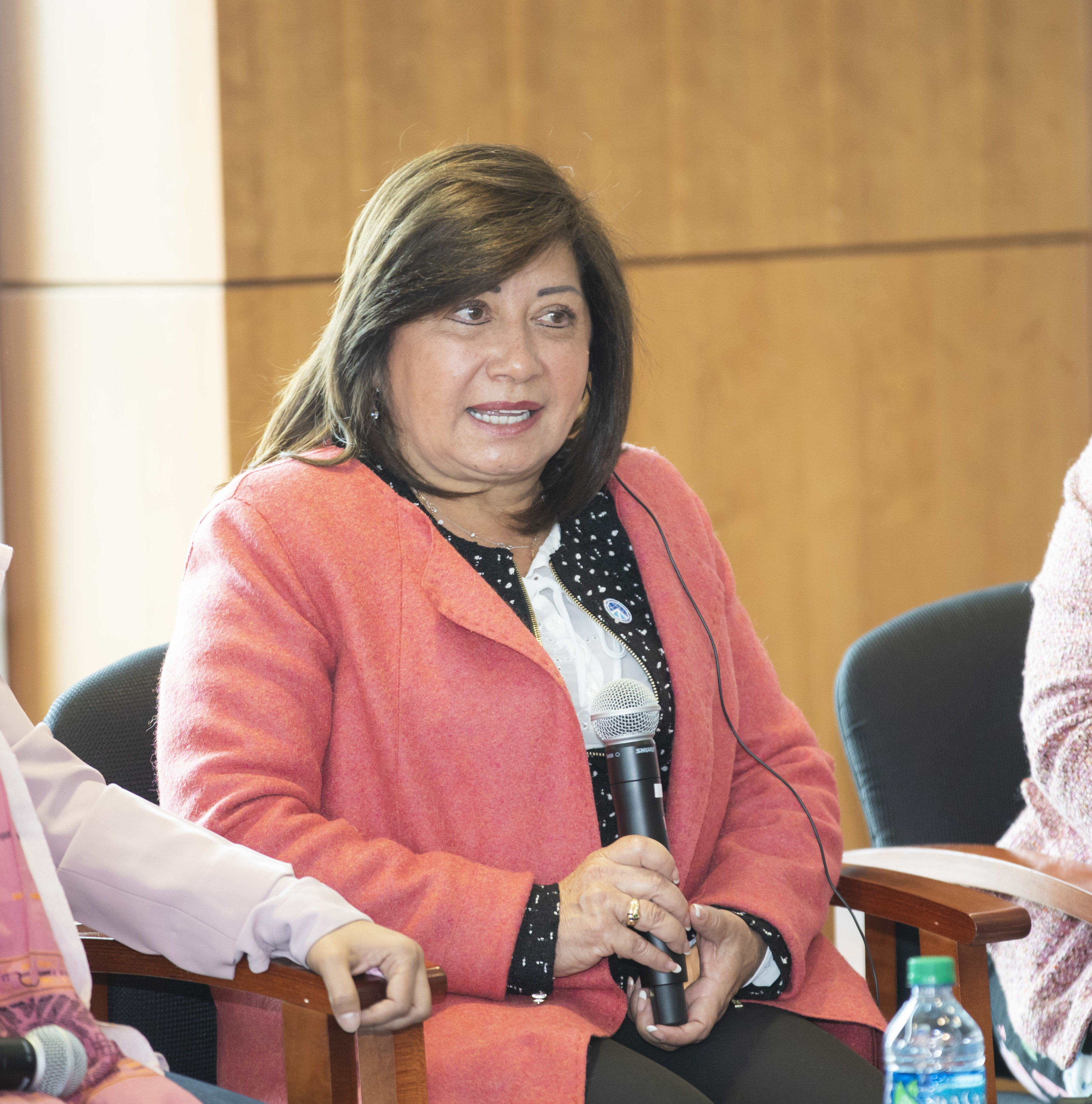 The Elliott School of International Affairs and the Gender Equality Initiative in International Affairs at George Washington University hosted a panel featuring three International Women of Courage (IWOC) honorees and Ambassador Reuben Brigety, Dean of the Elliott School. The IWOC award recognizes women around the globe who have demonstrated exceptional courage and leadership in advocating for peace, justice, human rights, gender equality, and women’s empowerment, often at great personal risk and sacrifice.